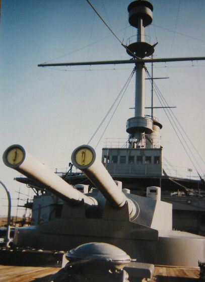 The Mikasa in Yokosuka.